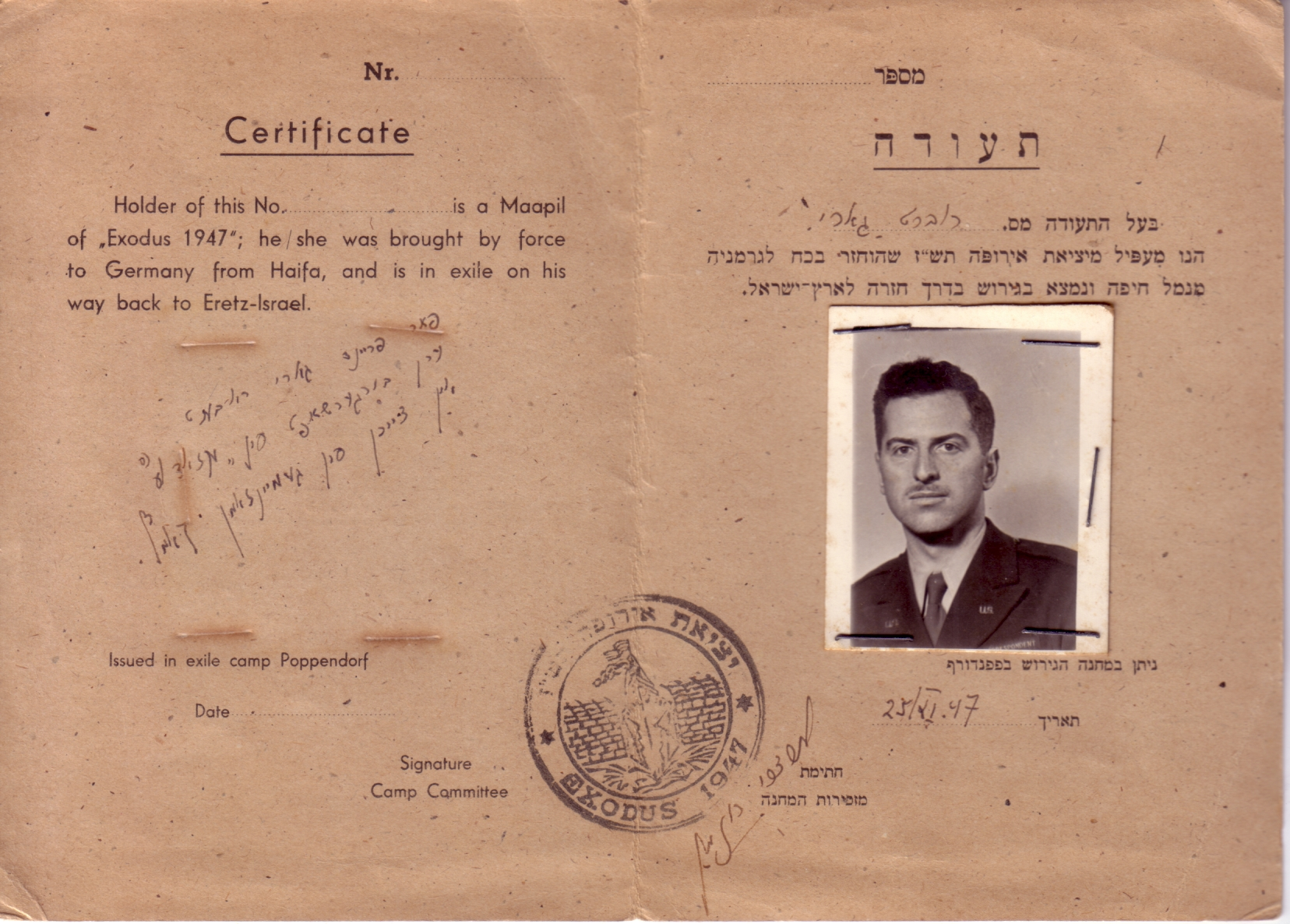 Robert Gary's Ma'apil certificate of "Exodus 1947" ship, given to him in exile camp Poppendorf, Germany.